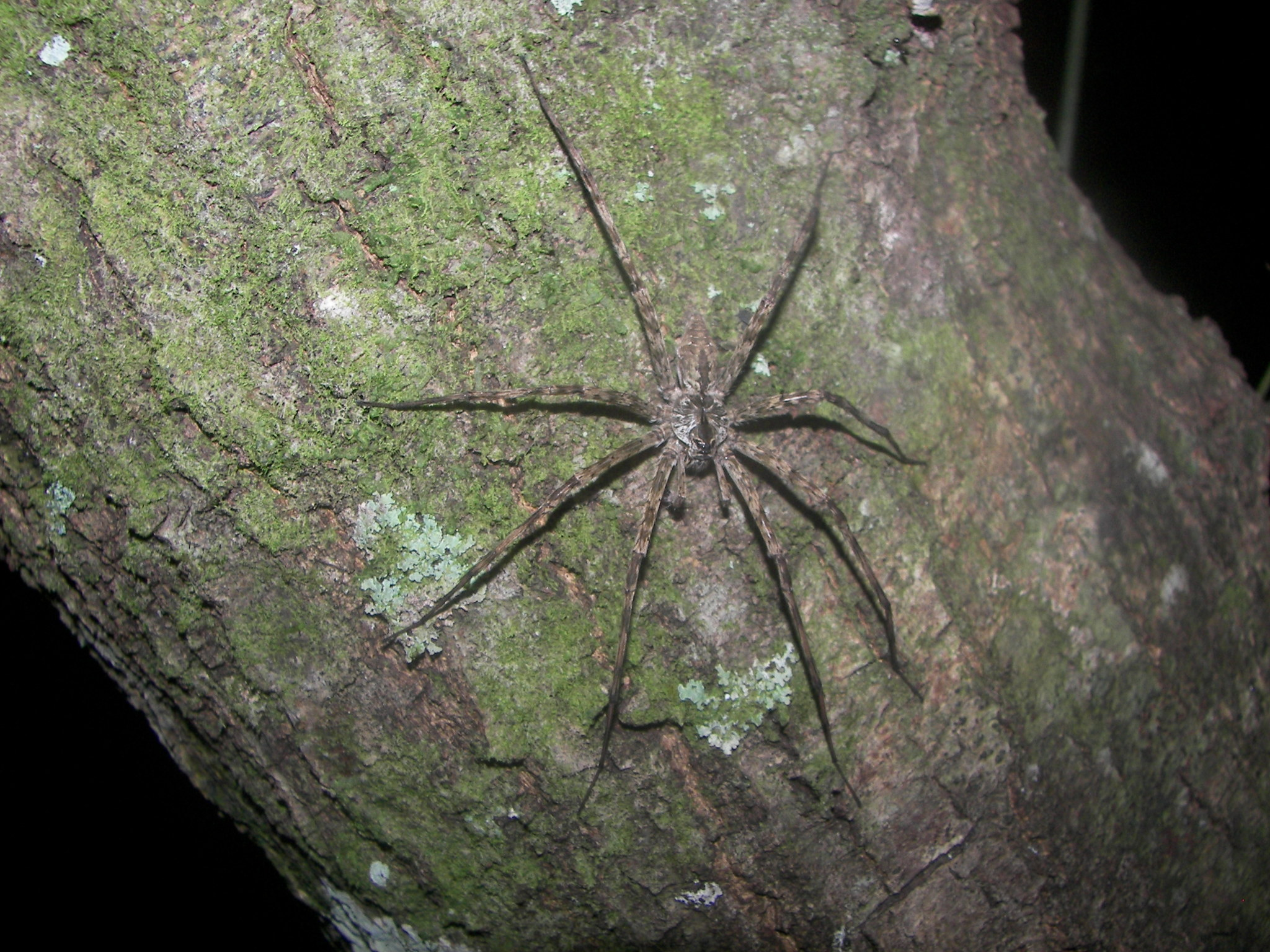 Whitebanded fishing spider. Dolomedes albineus.